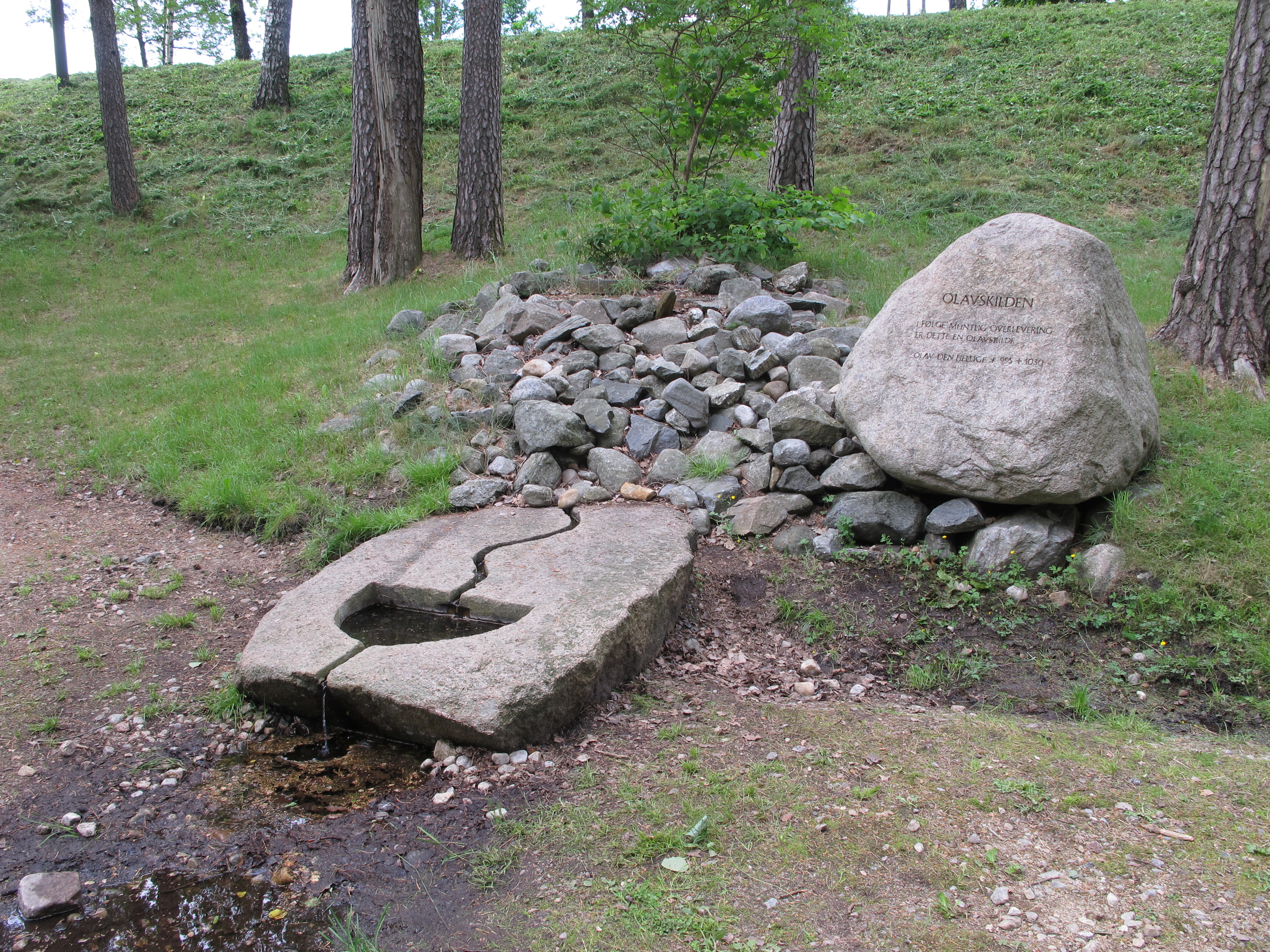 olavskilden near Fjære krk